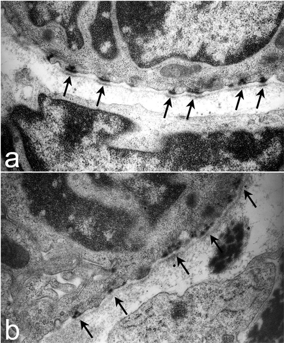 Ultrastructure of tracheal hemidesmosomes. Tracheas from P1-2 Lamc2-/- and littermate control mice were processed for transmission electron microscopy. Littermate control tracheas (a) had well-defined, organized hemidesmosomes with darkened areas in the lamina densa abutting the hemidesmosome (arrows). In contrast, hemidesmosomes in Lamc2-/- tracheas (b) were less organized, the intracellular component was more diffuse, and the lamina densa directly below the hemidesmosomal areas lacked the electron density seen in the littermate control (arrows). Nguyen et al. Respiratory Research 2006 7:28